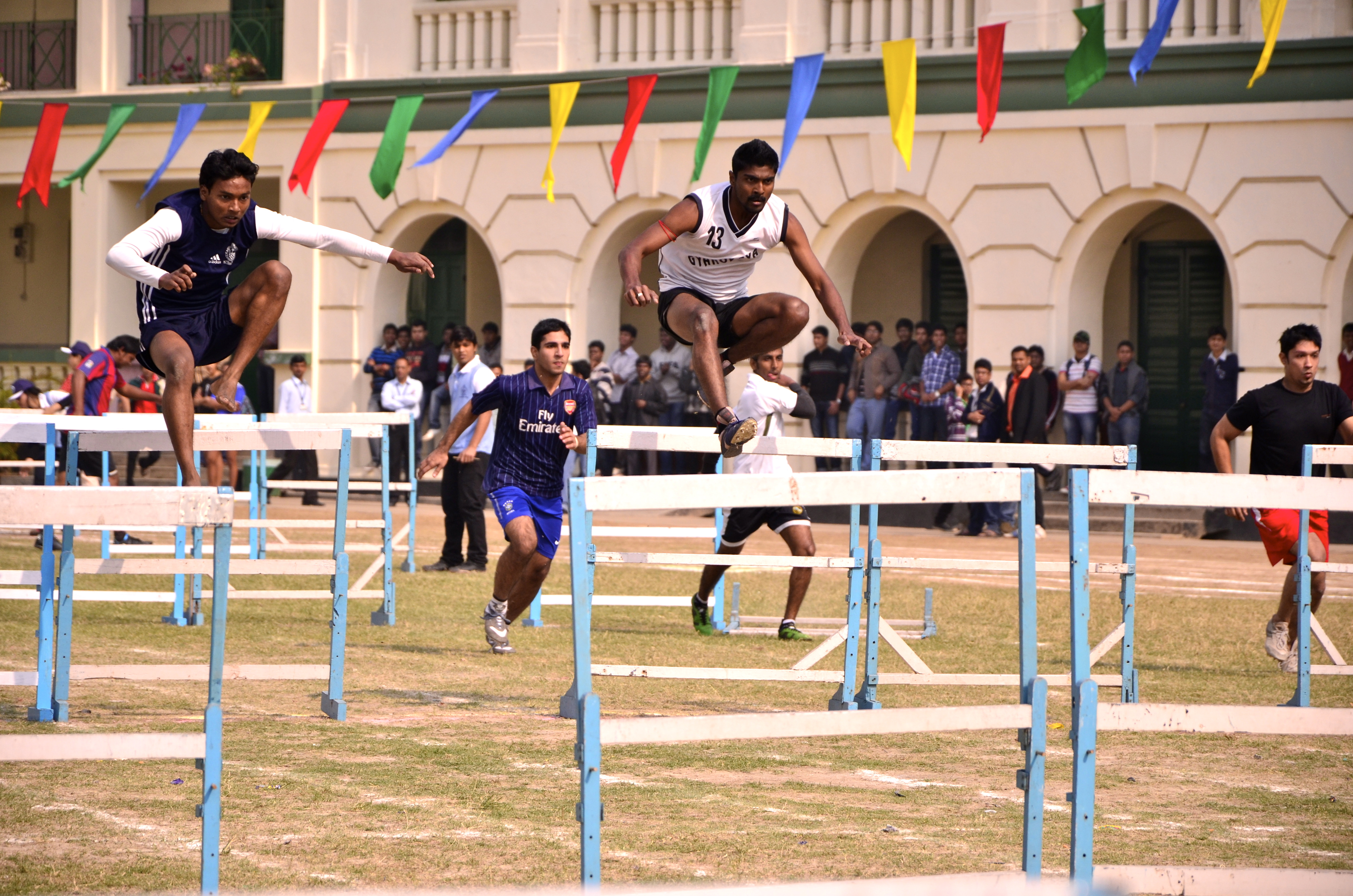 sports day at St.Xaviers College' Kolkata